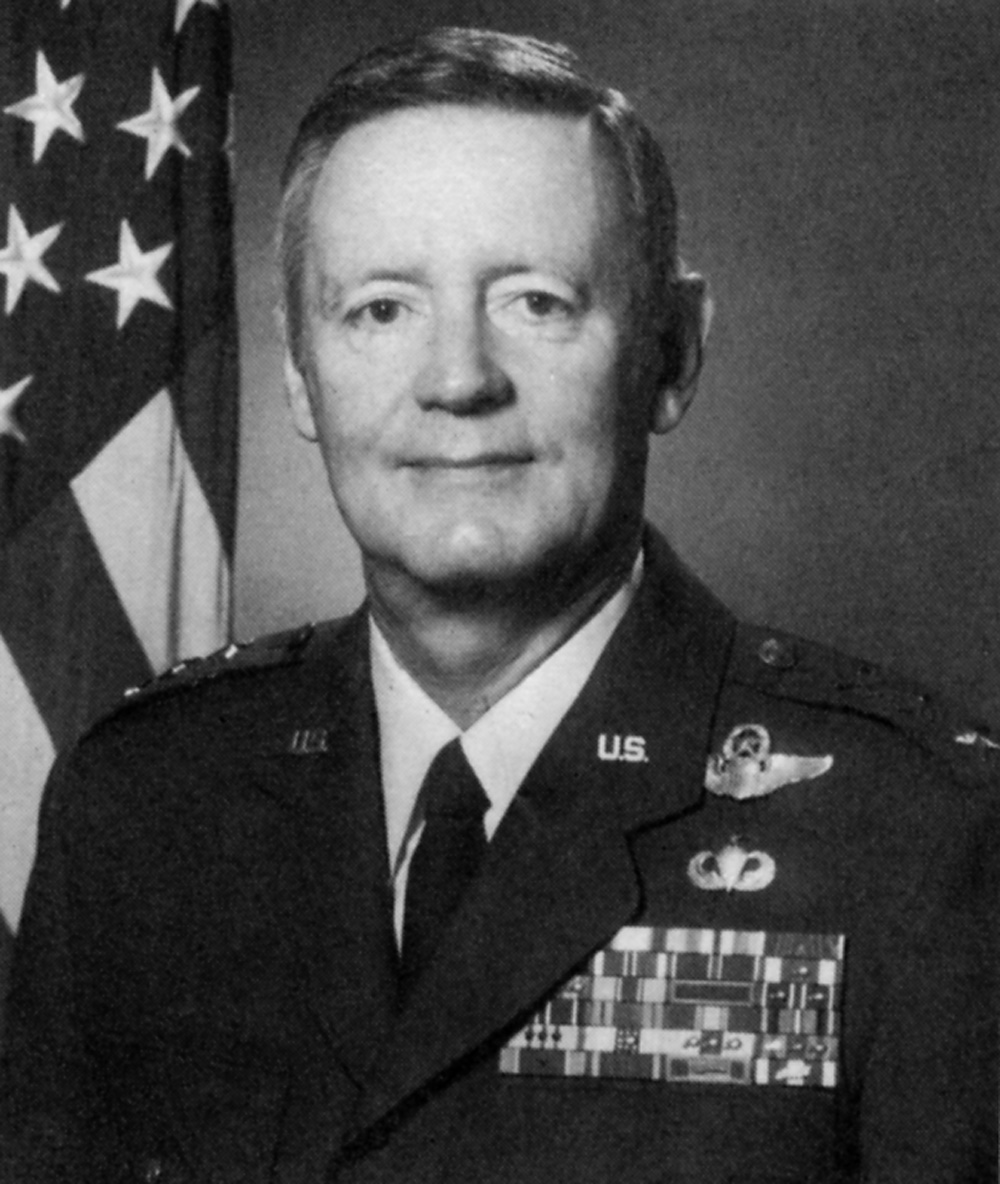 Gen. Charles R. Hamm from [1]